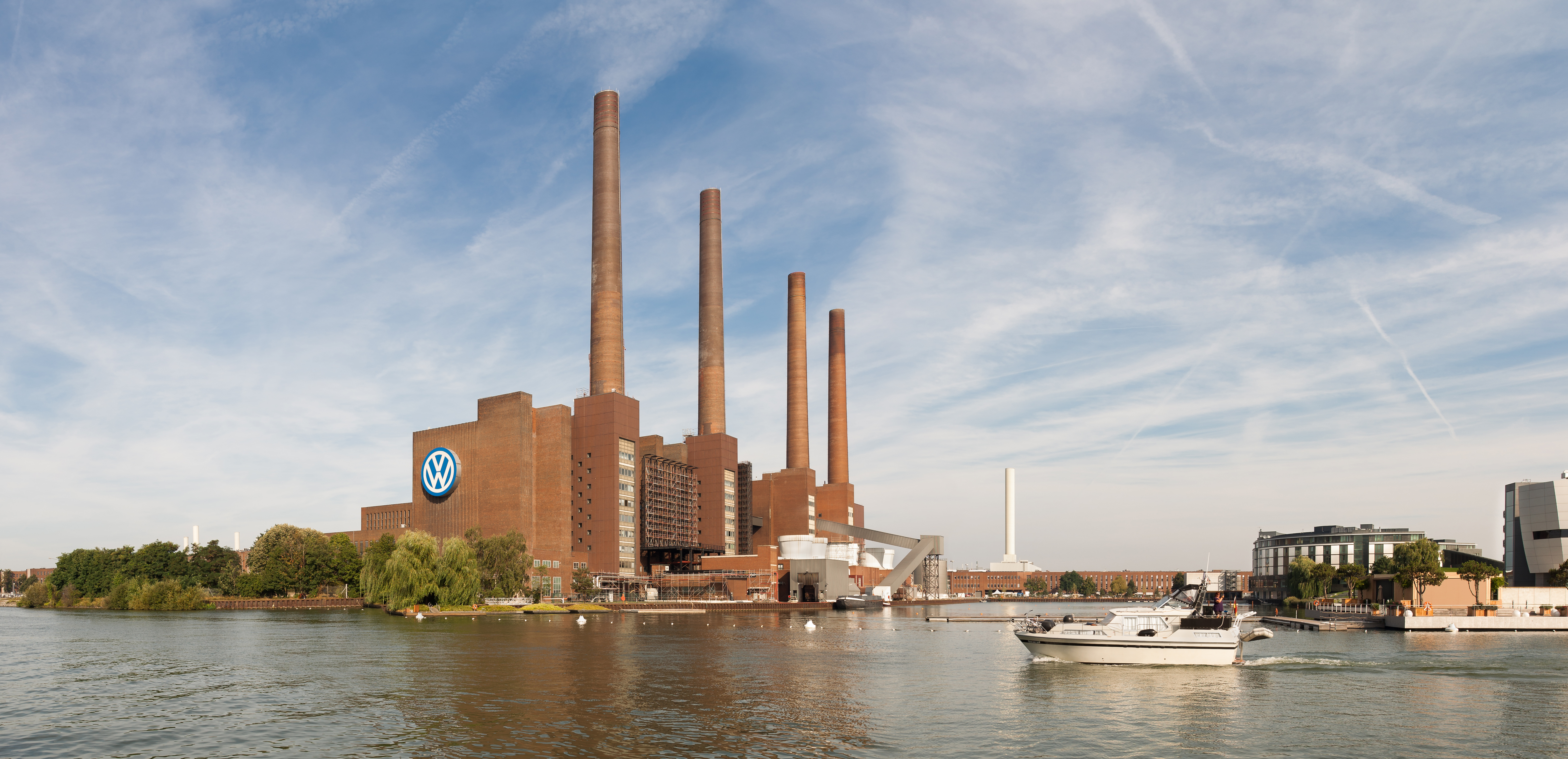 Old heating plant @ Volkswagen Plant, Wolfsburg, Germany